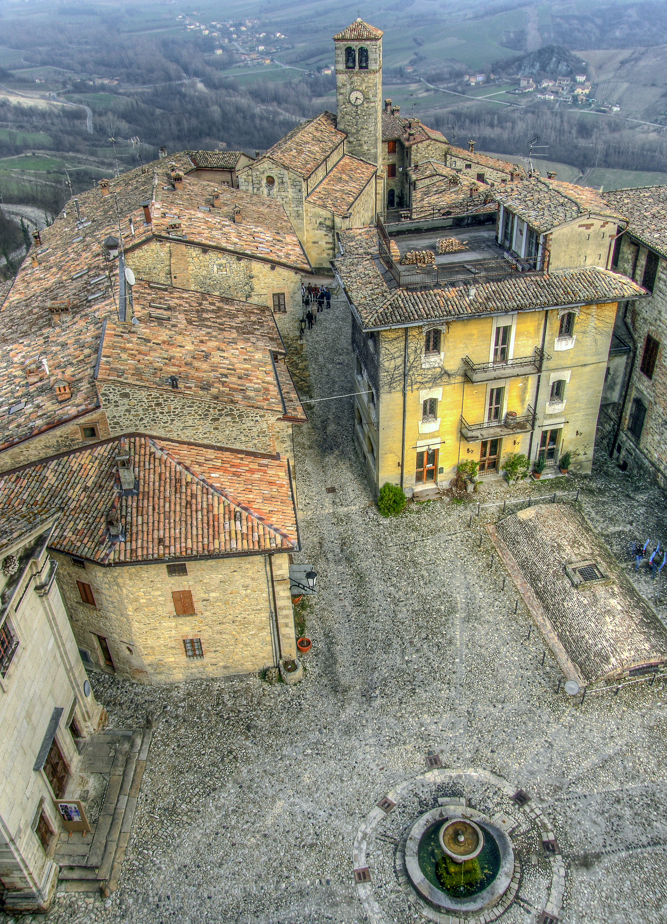 Vigoleno - Piacenza, Italy